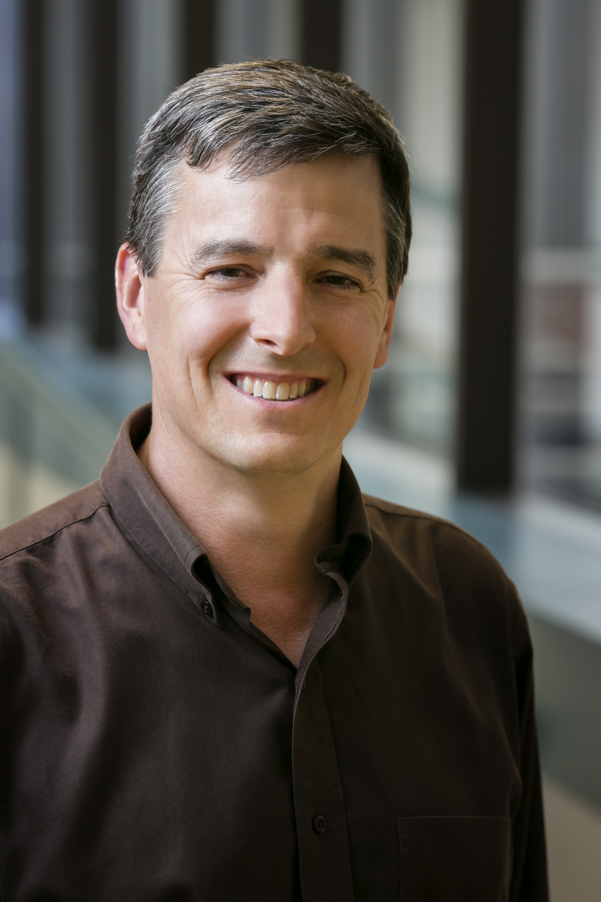 John Rogers - Swanlund Chair, Professor of Materials Science and Engineering; Professor of Chemistry; Director, F. Seitz Materials Research Laboratory